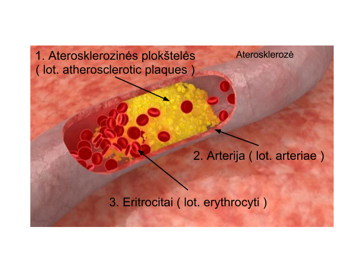 Atherosclerosis